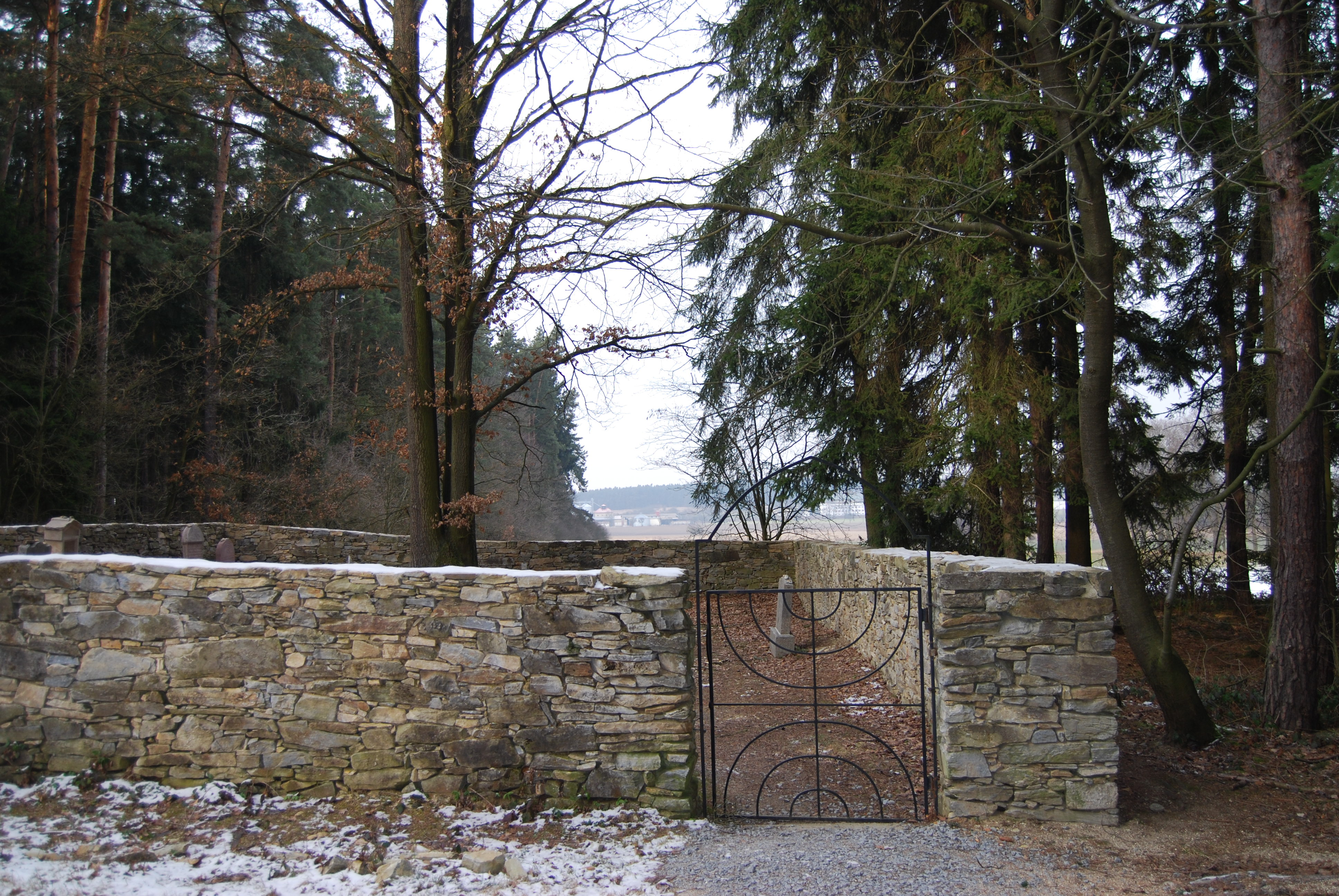 Jewish cemetery in Osek, Strakonice district, Czech Republic.